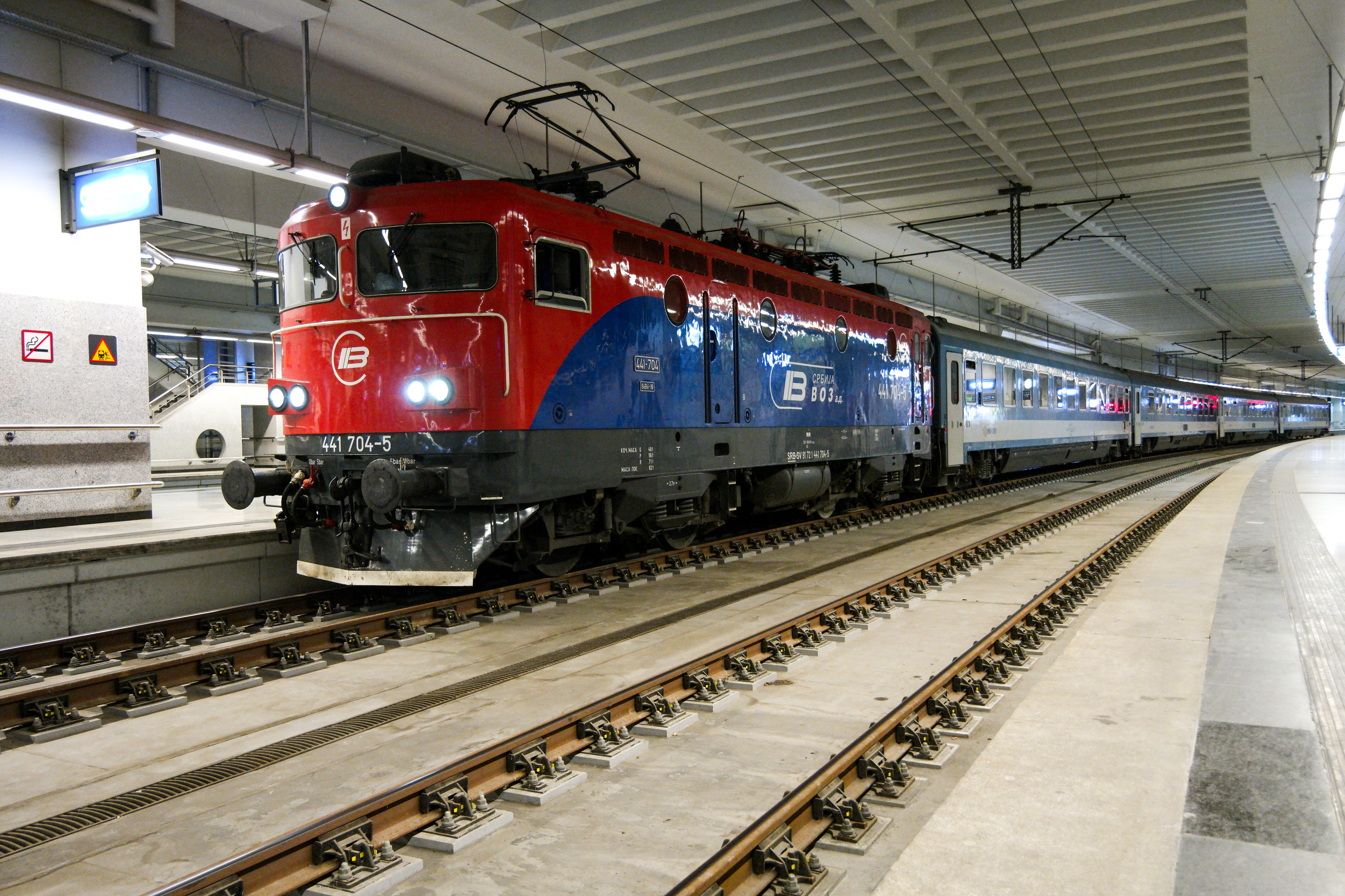 Belgrade centre railway station